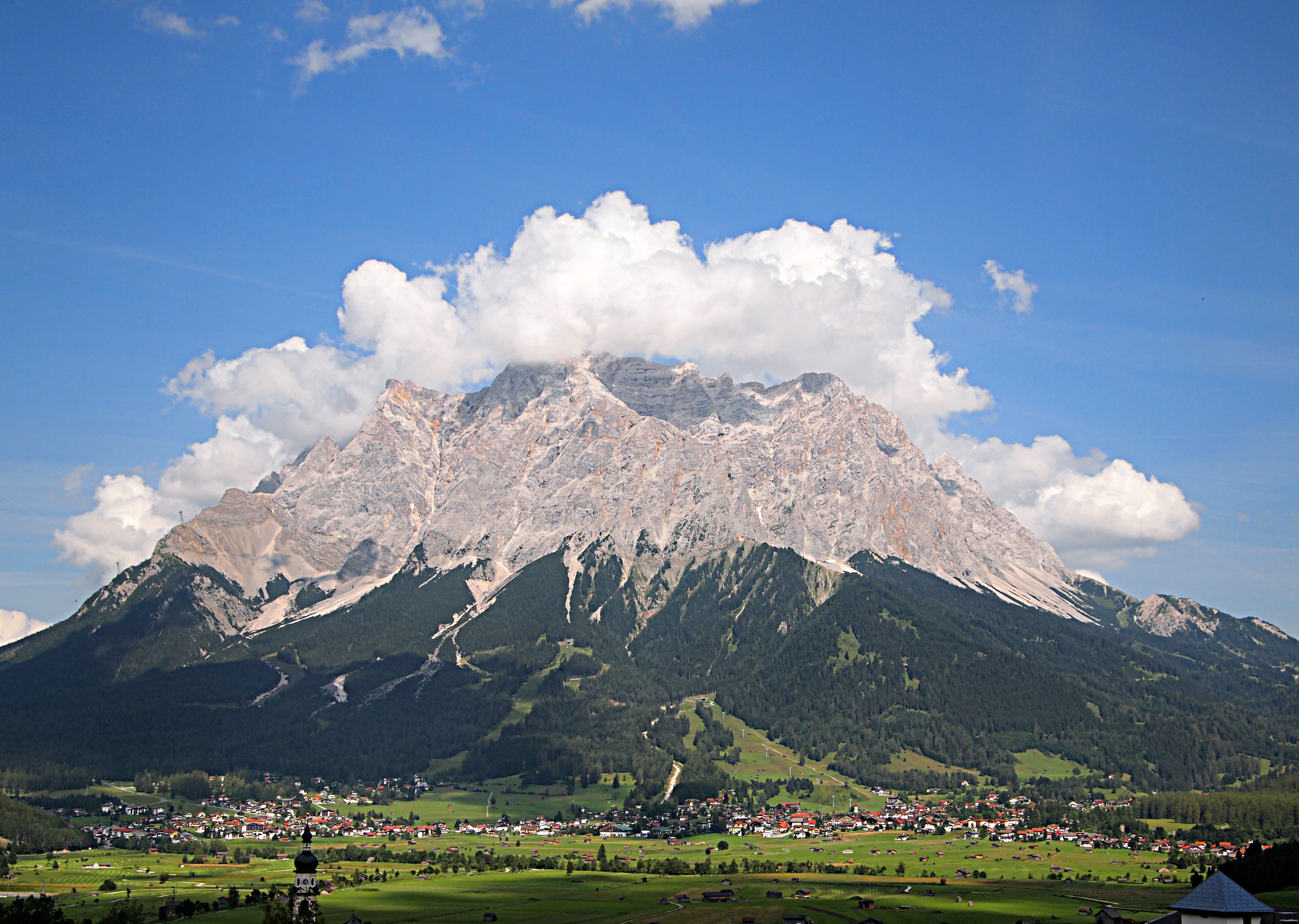 View from Lermoos towards Ehrwald and the mountain Zugspitze in Tyrol, Austria. This photograph was taken with an Olympus E-PL1